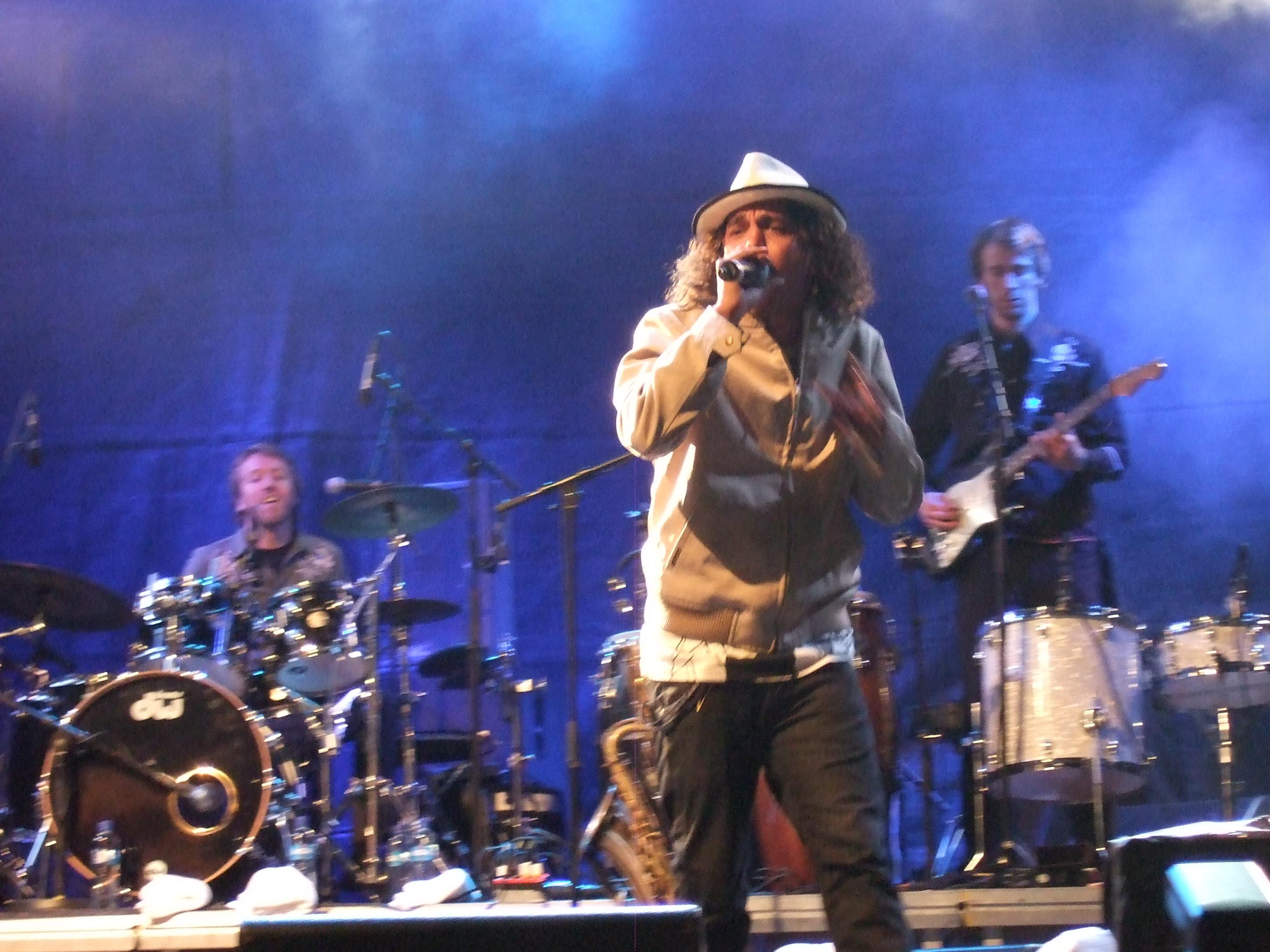 Timbuktu at the park festival in Bodø 2007